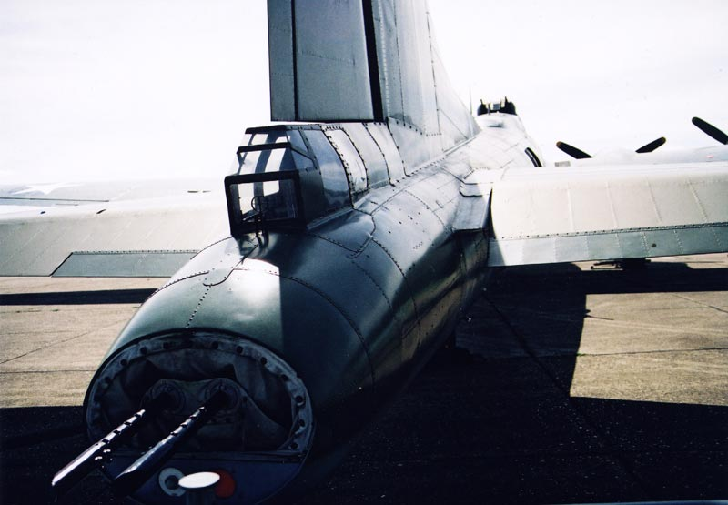 B-17 Flying Fortress with early (pre-Cheyenne) turret.